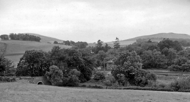 Bowland Station (remains). Near to Bowland, Scottish Borders, Great Britain. View westward from A7 road across Gala Water to Seathope Law (1,778 ft.) and Ferniehurst Hill (1,643 ft.). Beside the river is the ex-NBR Carlisle - Hawick - Galashiels - Edinburgh (Waverley Route) main line, which was closed in its entirety on 6/1/69. Bowland Signalbox can be seen but not the Station, which was closed to passengers on 7/12/53 but remained for goods until 23/3/64.